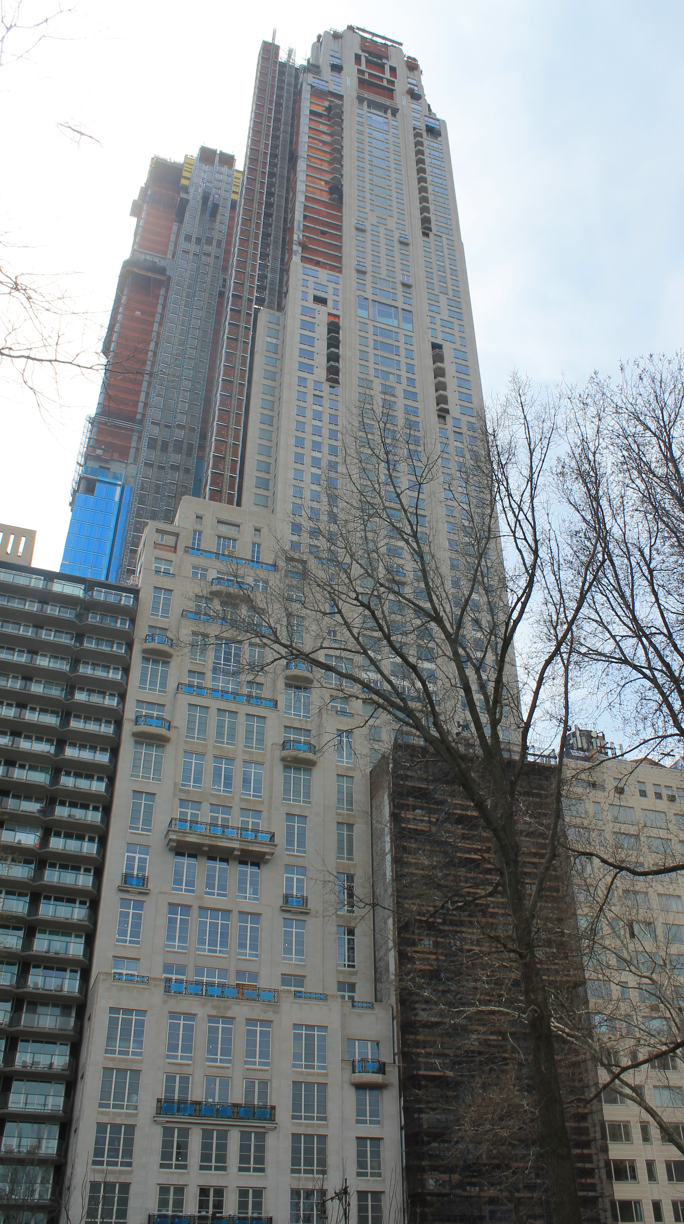 220 Central Park South under construction, April 13 2018.